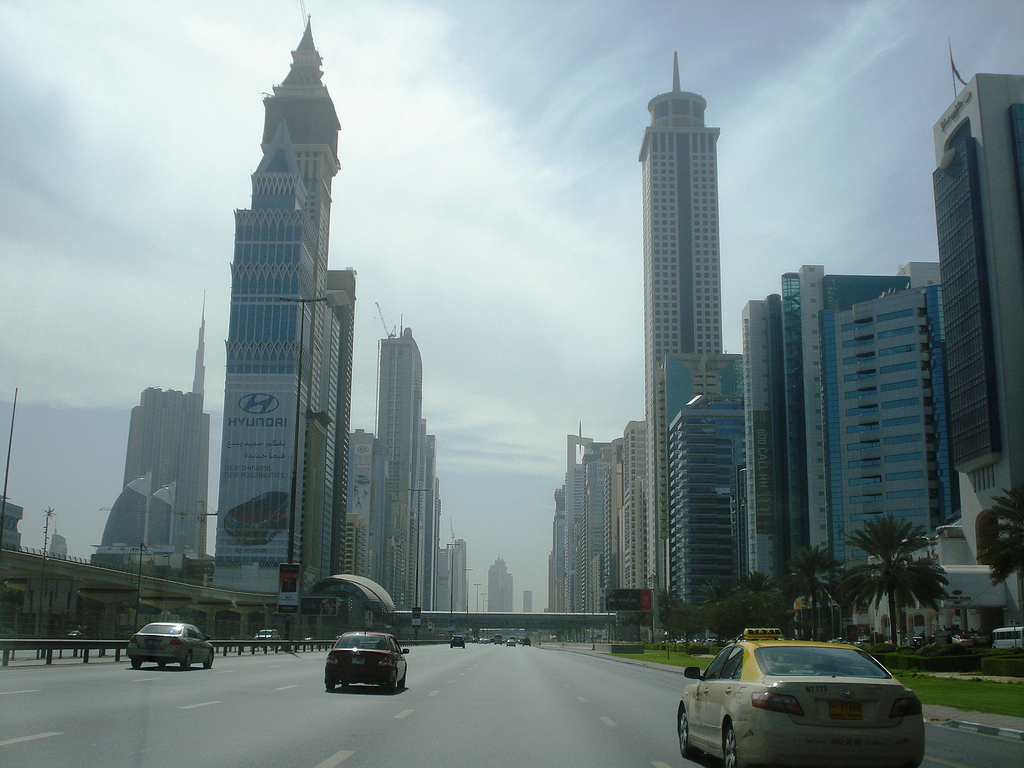 The Skyscrapers on Sheikh Zayed Road taken on Feb. 10, 2012.